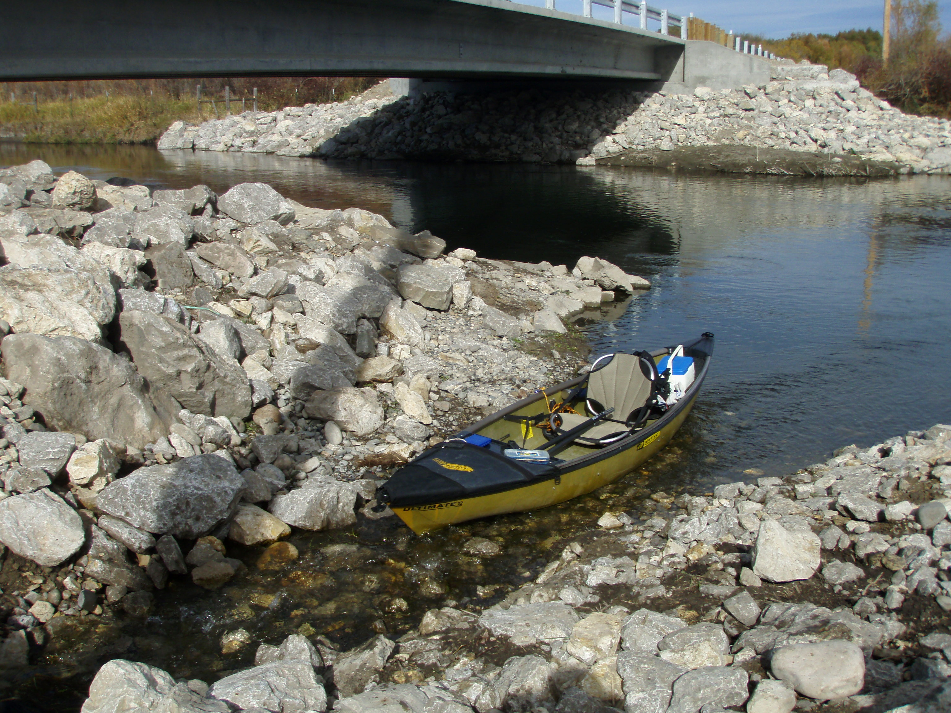 Public access to Montana river from public bridge right-of-way (East Gallatin River)